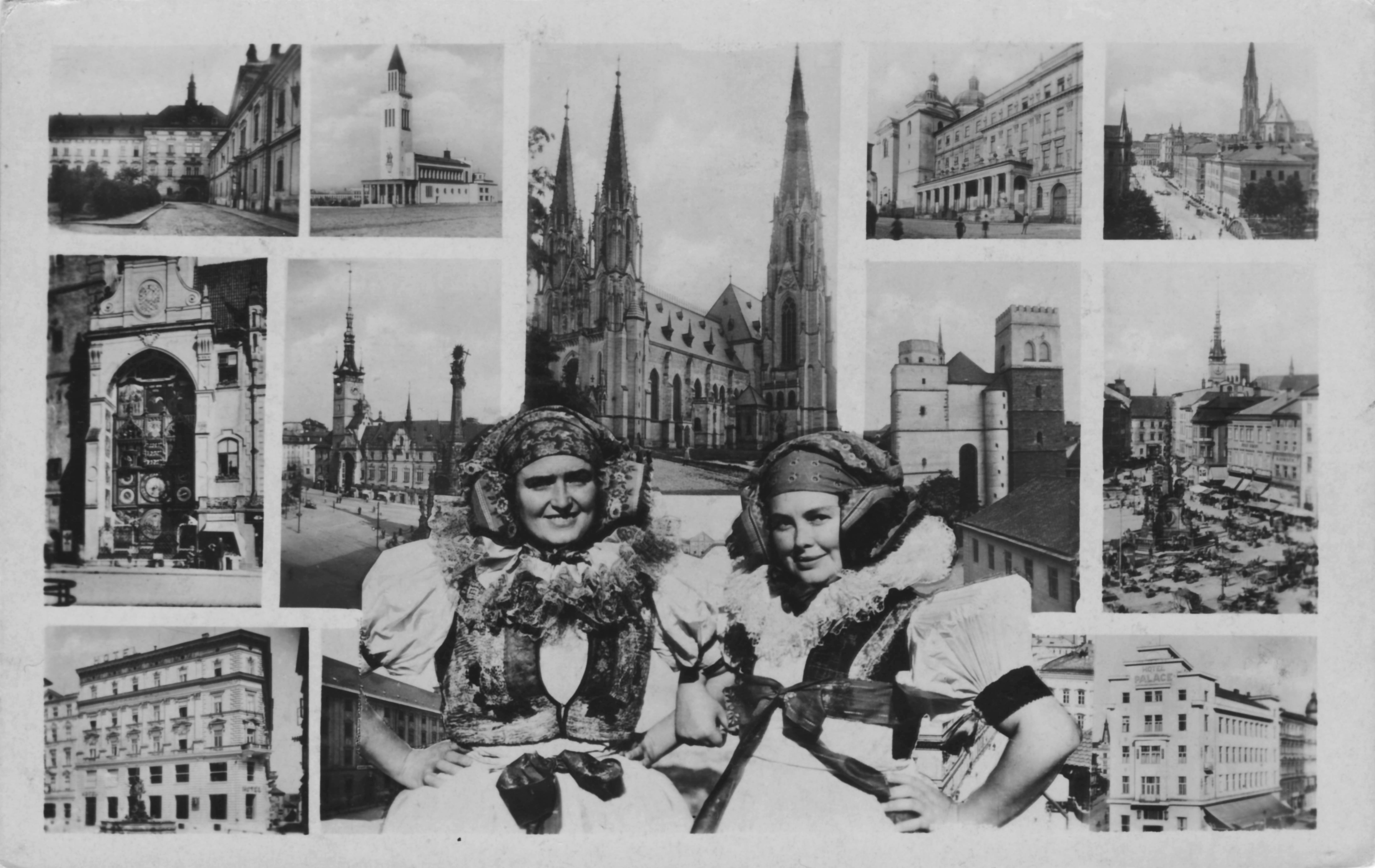 Historical postcard depicting some major sights in Olomouc.